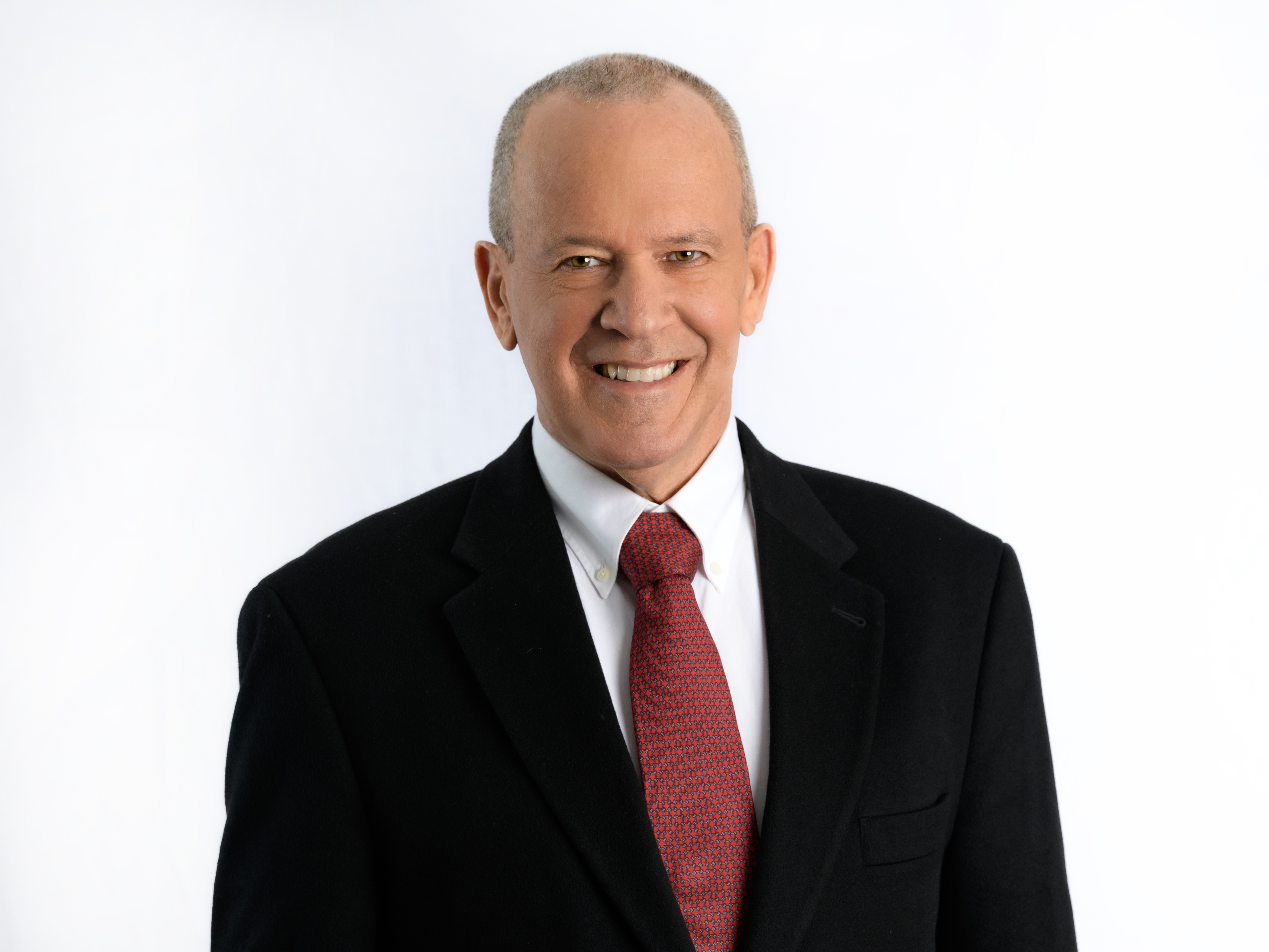 Oded Shamir, Chairman of the Board of Directors Netivei Israel- National Transport Infrastructure Company